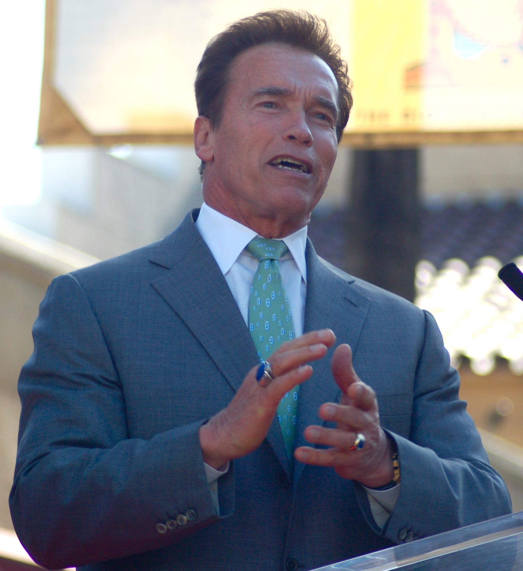 Arnold Schwarzenegger at a ceremony for James Cameron to receive a star on the Hollywood Walk of Fame.